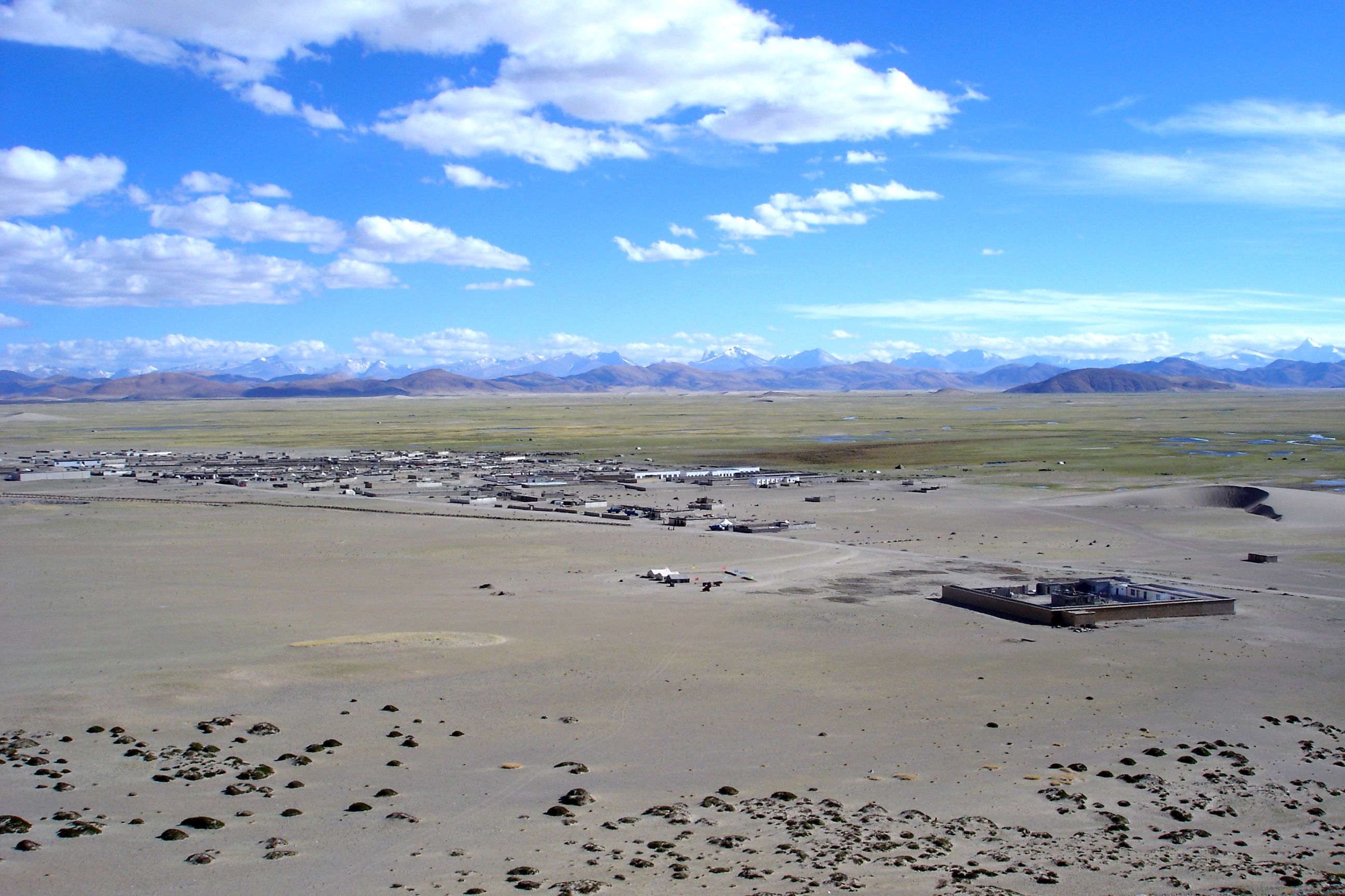 Paryang (Tibet Autonomous Region, People's Republic of China).